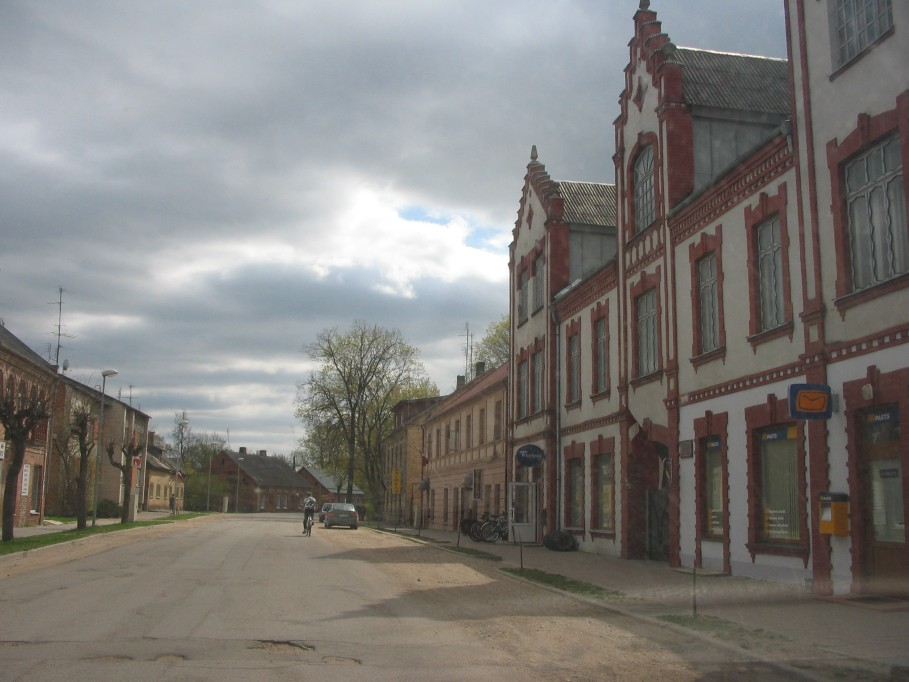 Raiņa Street, Auce (Roads P96, P104)